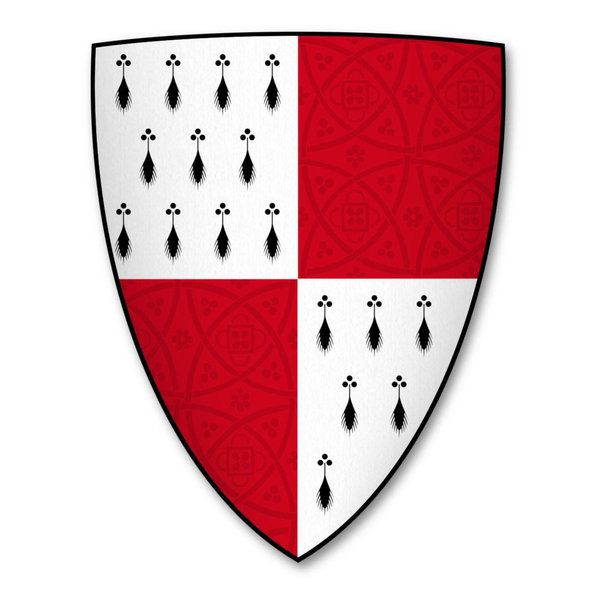 Armorial Bearings of the STANHOPE family of Holme Lacy, Herefordshire Arms: Quarterly, ermine and gules. Crest: A tower azure thereon a demi-lion rampant or, ducally crowned gules, holding between the pawsa grenade fired proper. Strong, George (1848) The Heraldry of Herefordshire: Being a Collection of the Armorial Bearings of Families Which Have Been Seated in the County at Various Periods Down to the Present Time., London: Churton Press